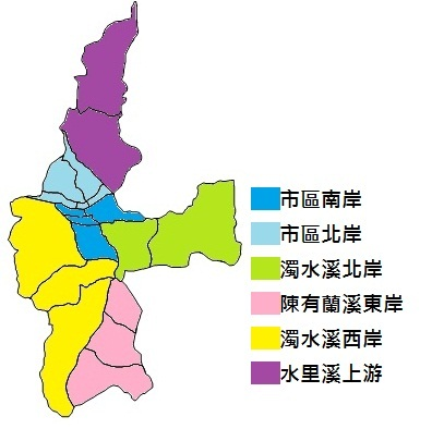 Shueili District Map